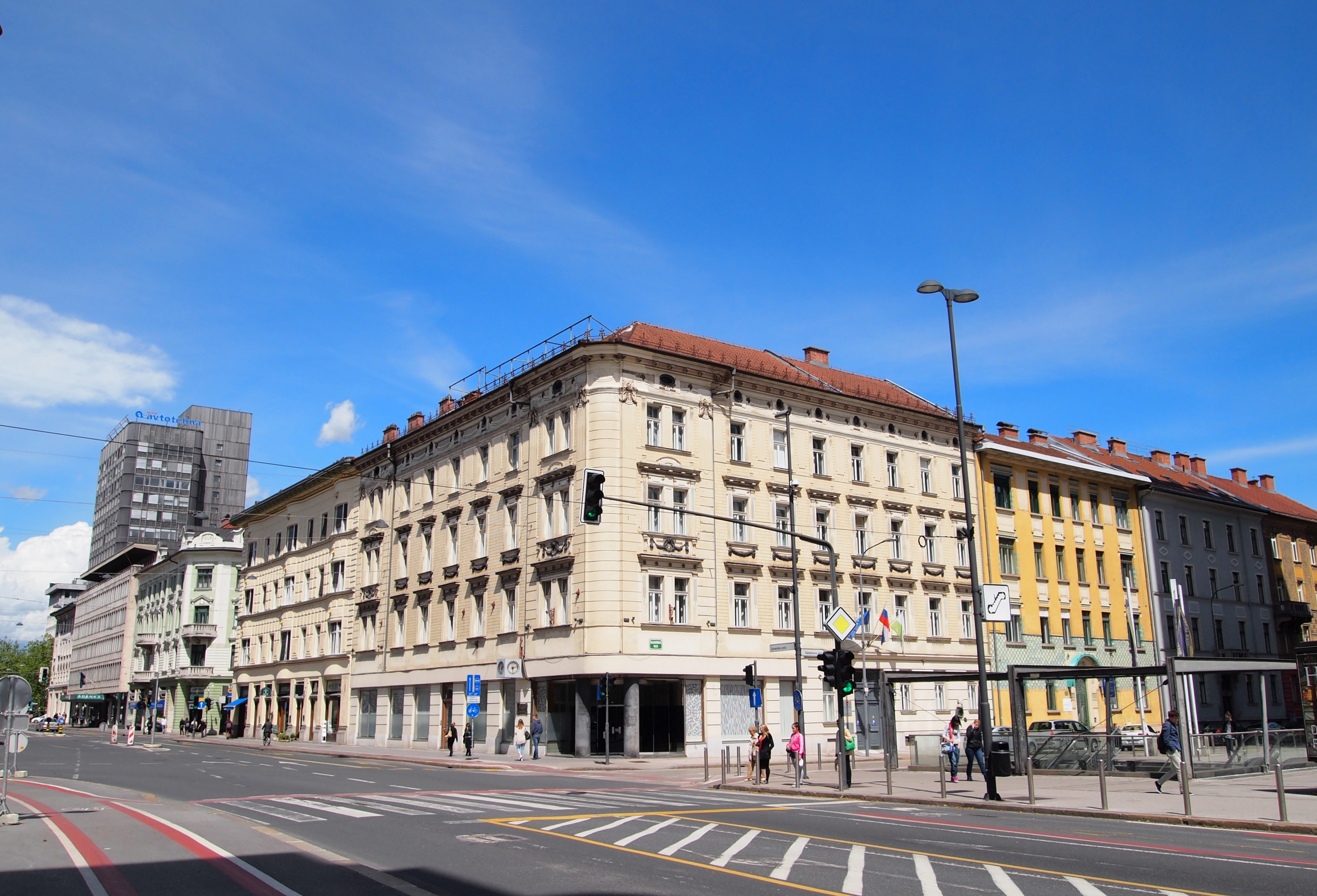 Slovenska 44, the building between the streets Slovenska cesta and Dalmatinova ulica, Ljubljana. This photograph was taken with a Olympus E-PL1.